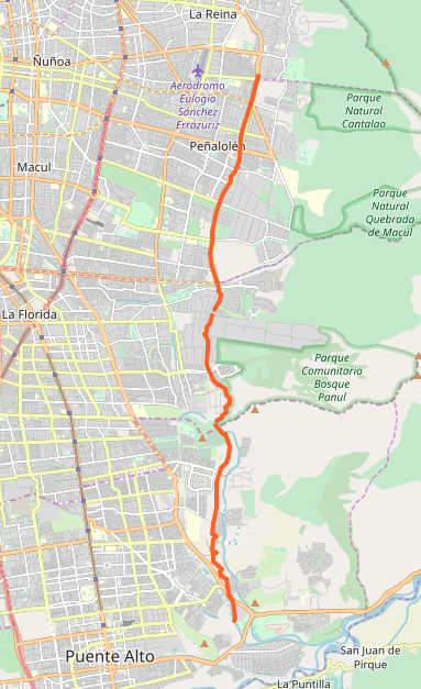 Canal Las Perdices en el oriente de Santiago, sale del Canal San Carlos y llega hasta la comuna de La Reina